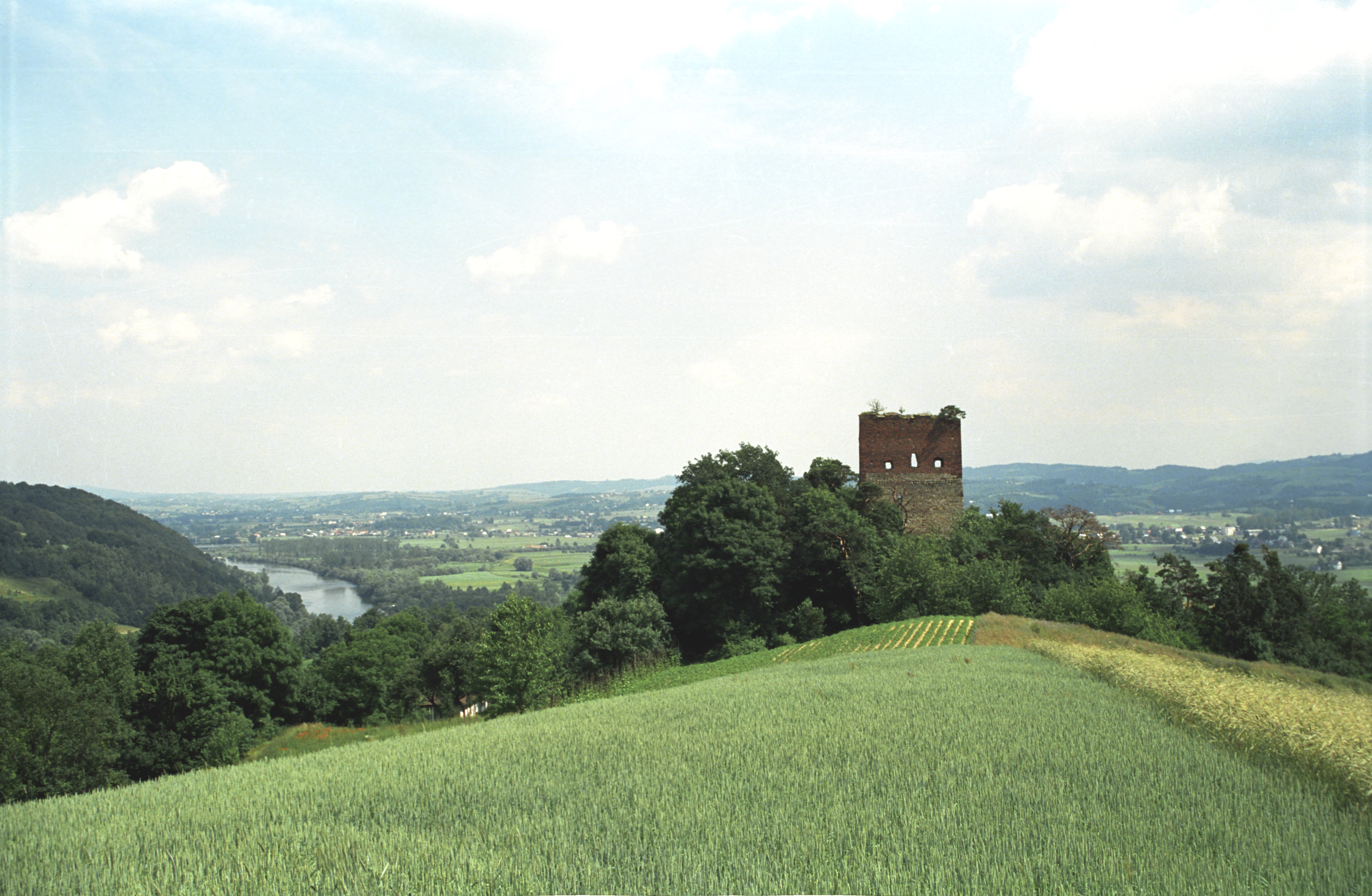 Poland, Melsztyn Castle